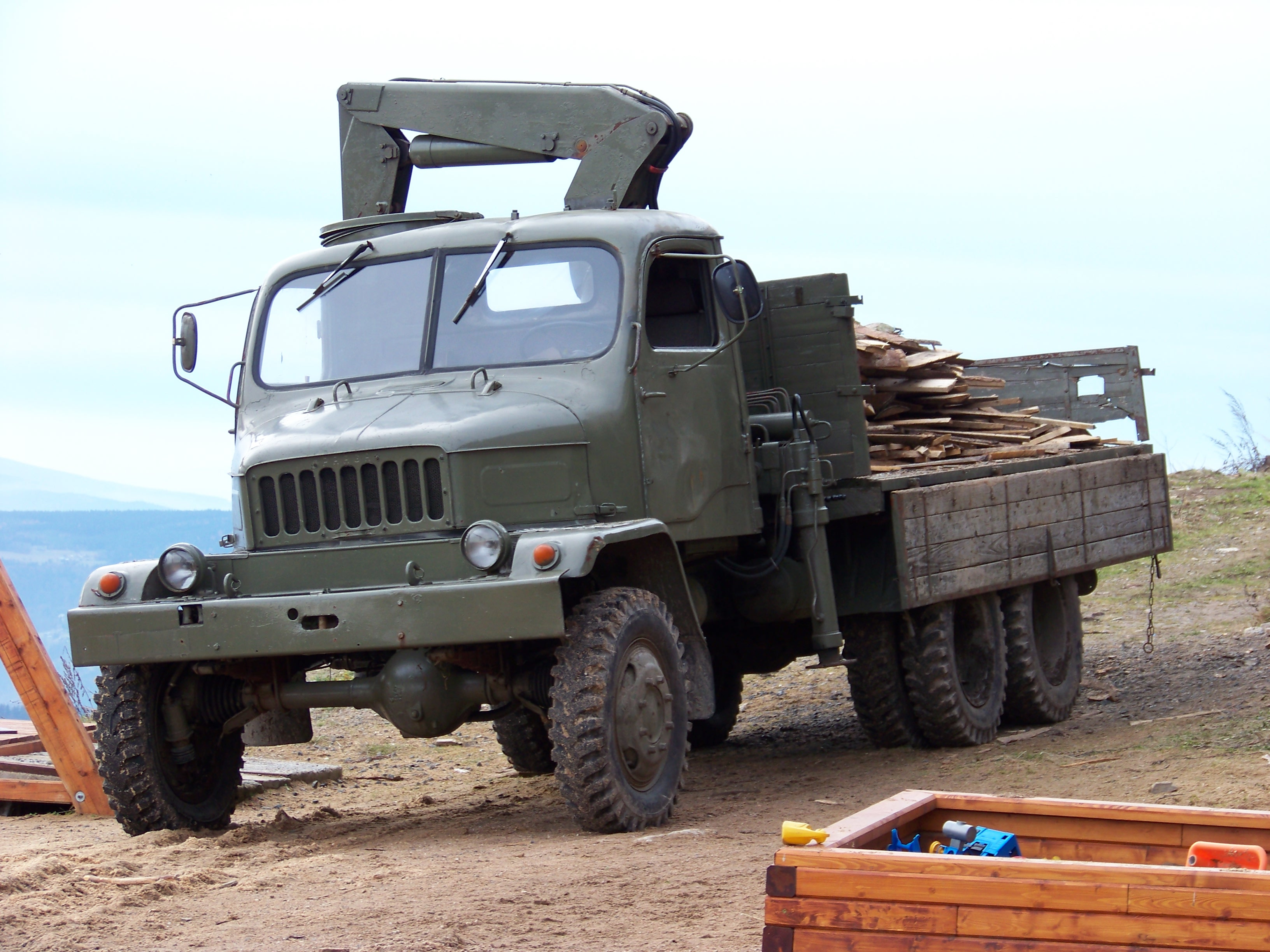 Rokytnice nad Jizerou-Rokytno, Semily District, Liberec Region, the Czech Republic. Dvoračky, a truck.